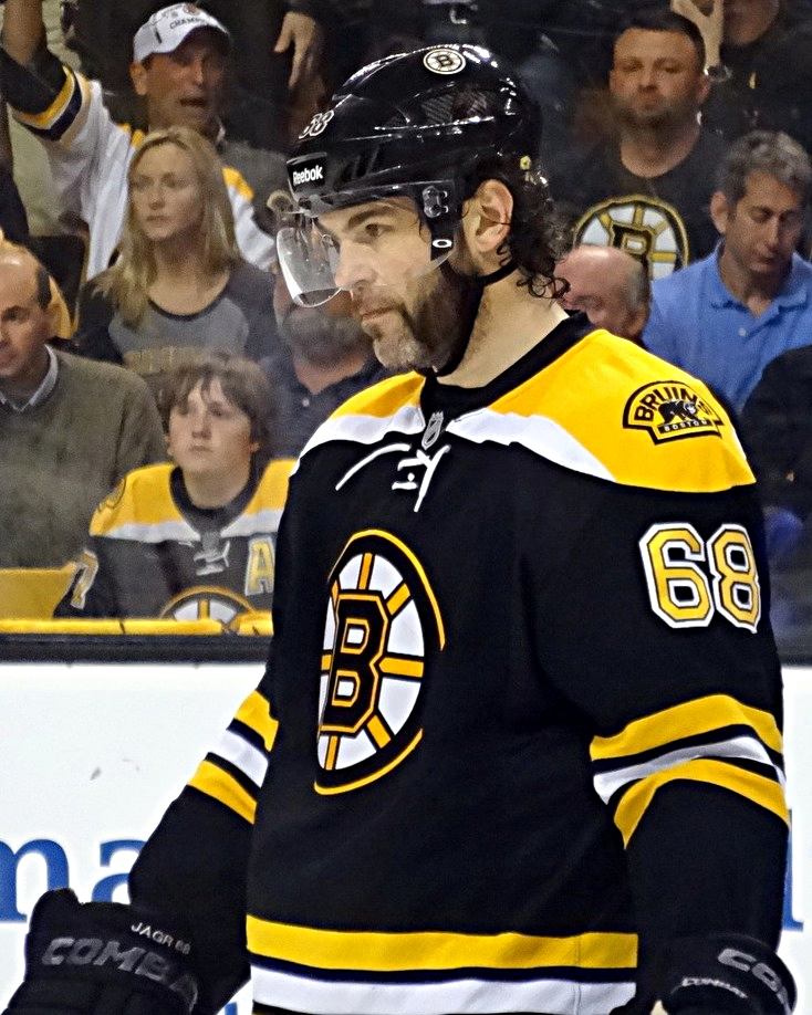 Boston forward Jaromír Jágr during game four of the Bruins Eastern Conference Finals series against the Pittsburgh Penguins, June 7, 2013 at TD Garden in Boston, MA.